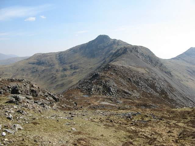 Beinn Fhada The long ridge from near the 563m bump on the north end.